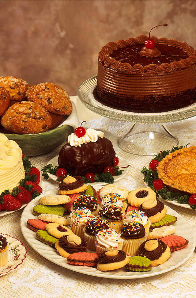 Bakery products.